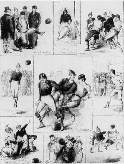 The first association football international, Scotland v. England, played at Hamilton Crescent.